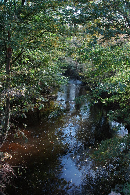 Afon Troddi/River Trothy Afon Troddi/River Trothy viewed the bridge giving access to Troy Farm. Here the river is near its confluence with the River Wye.